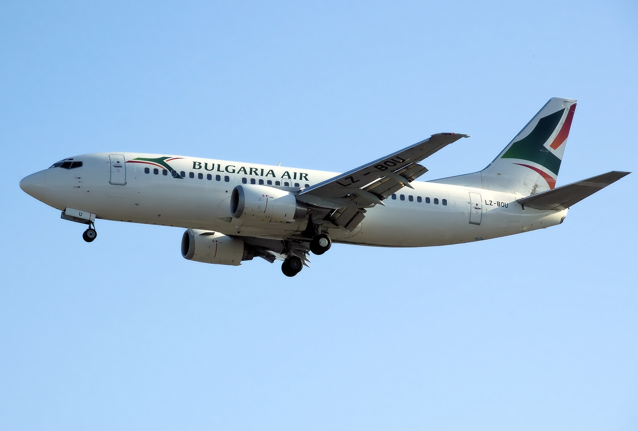 Bulgaria Air Boeing 737-300 (LZ-BOU) lands at London Heathrow Airport, England.